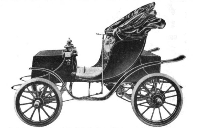 The photo is from an article on page 122 in the April 1906 issue of Cycle and Automobile Trade Journal. The scan is from the Google Book archive. Title Automobile trade journal, Volume 10 Publisher Chilton Company, 1906 Original from the University of Michigan Digitized Oct 2, 2007